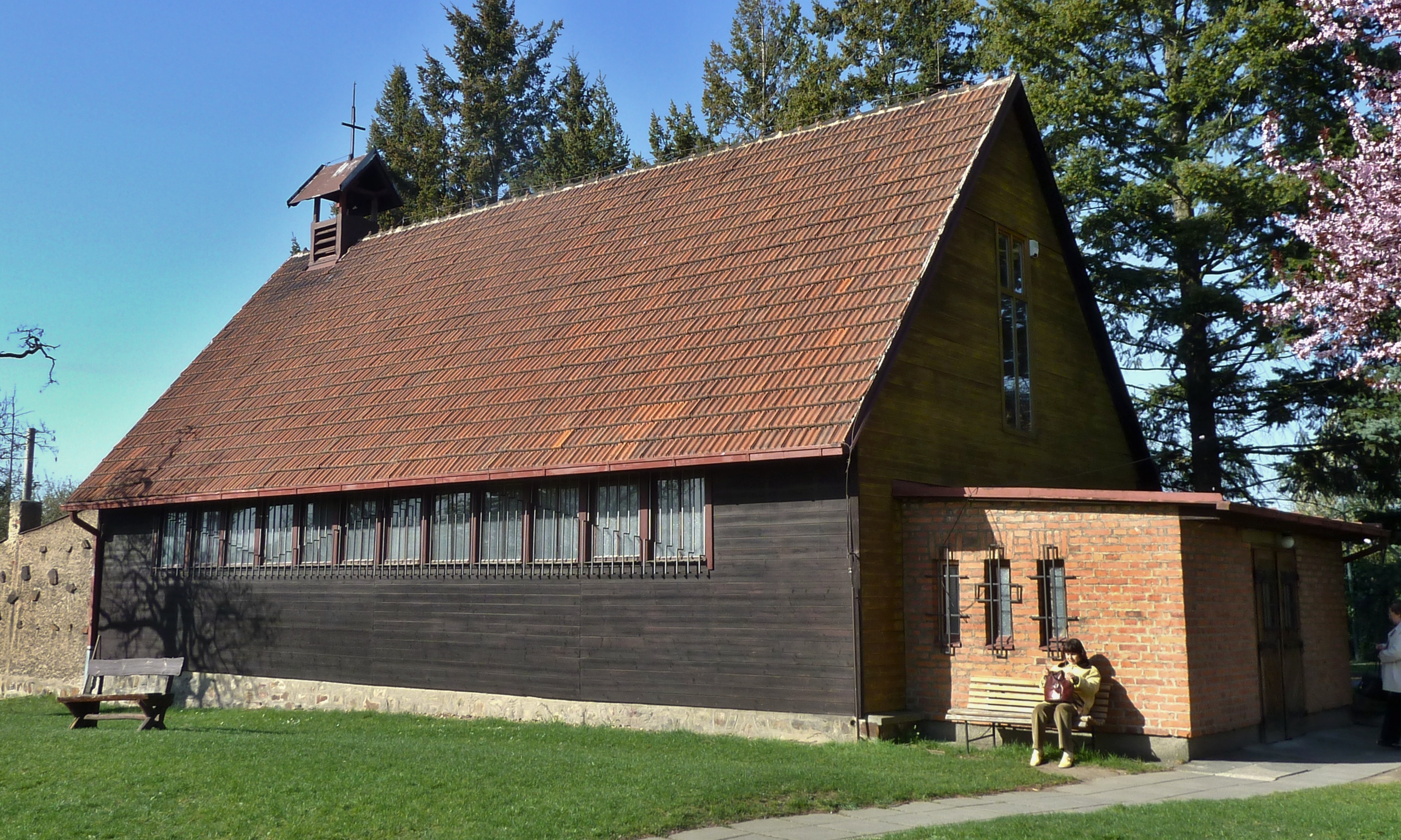 Church of St. Francis of Assisi in Prague 4 – Krč